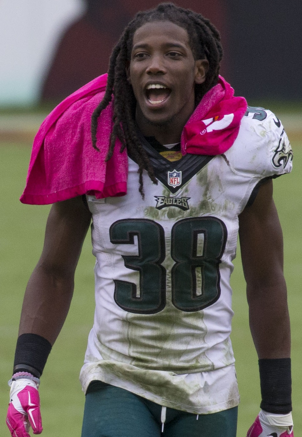 Eagles at Redskins 10/04/15